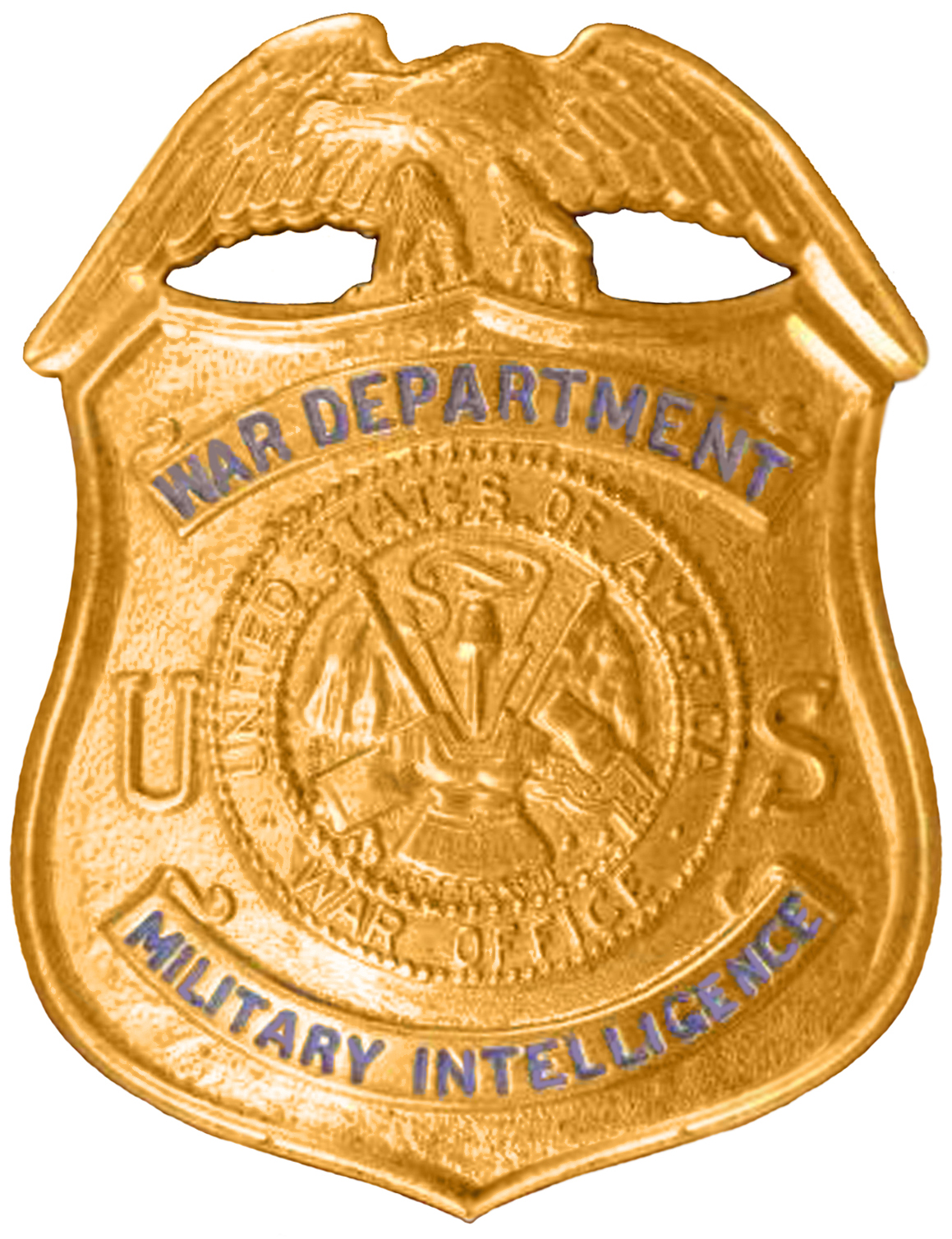 U.S. Army Counterintelligence Corps Badge circa World War II